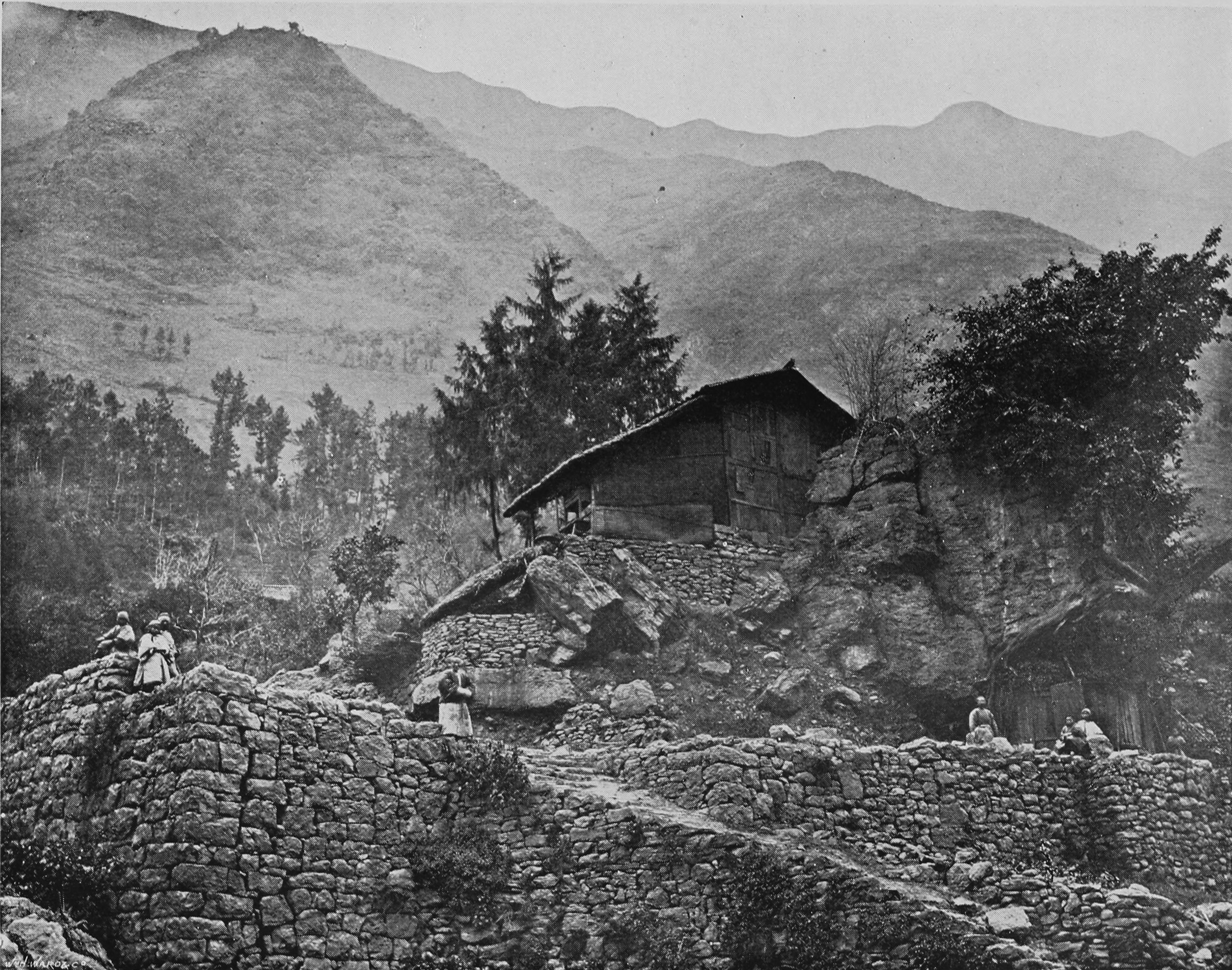 photo from Through China with a camera